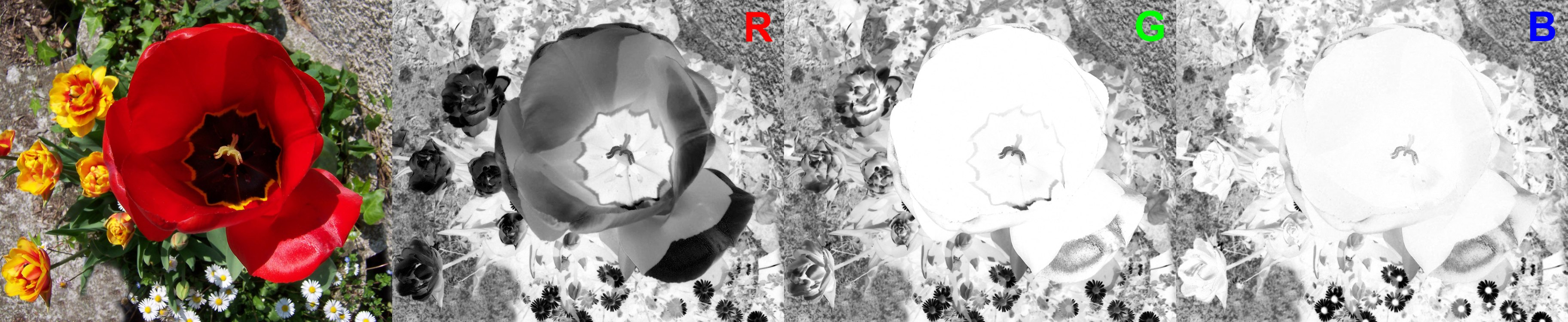 RGB color separation negatives in B&W